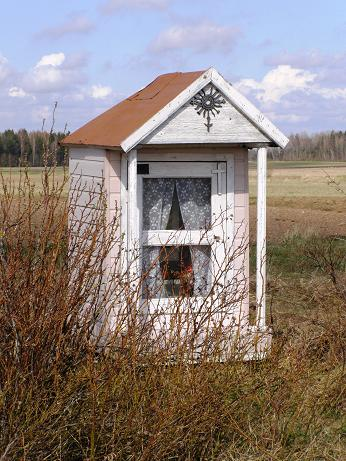 Erlėnai, Kretinga district, Lithuania